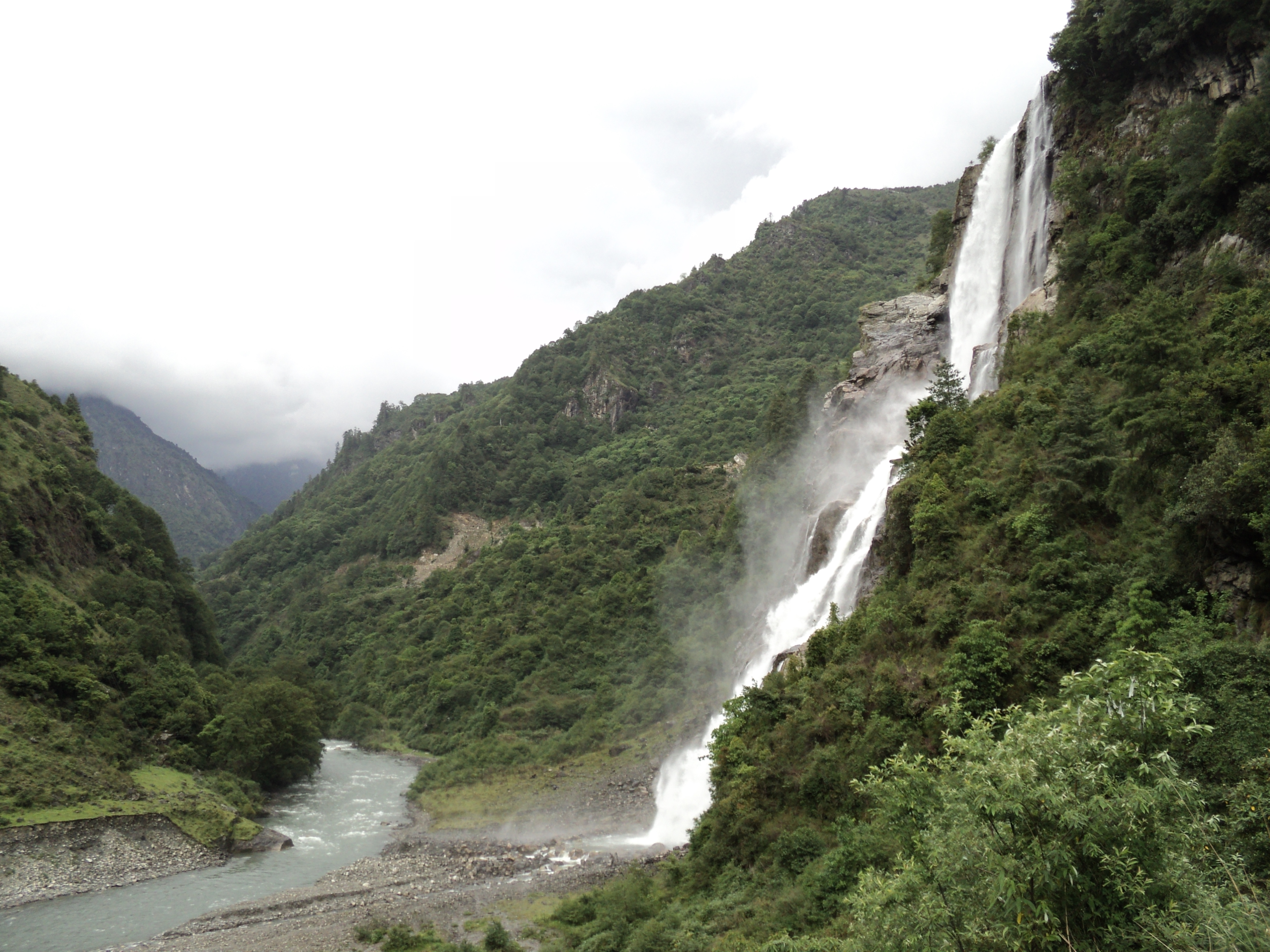 Falls in Tawang Used in shooting of the movie Koyla